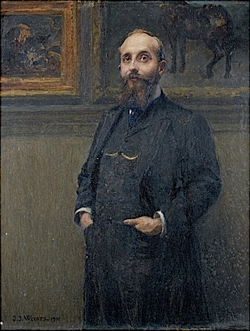 Gaston Graux [not Lucien], oil on canvas by Jean-Joseph Weerts — sold in Paris (2009). Gaston Graux (1848-1925) was a doctor, and CEO of the Société des eaux de Contrexéville.